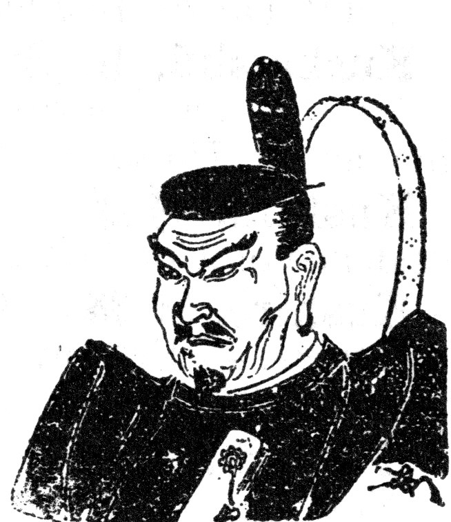 Portait of Kusunoki Masashige